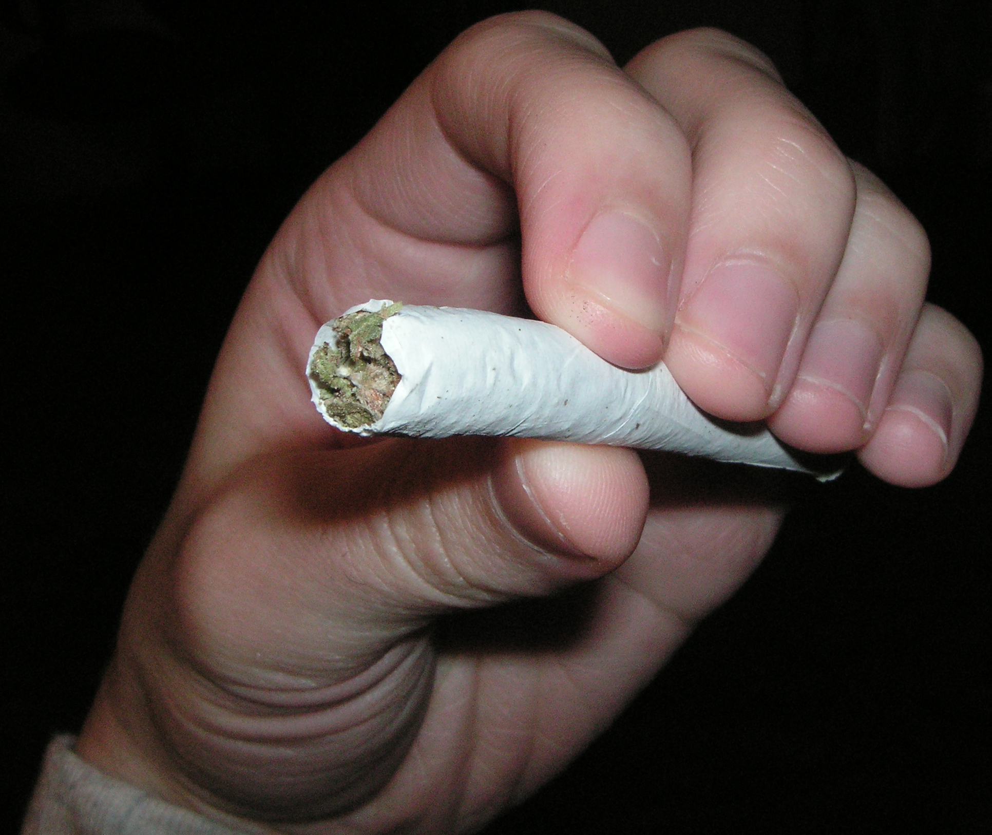 "Marijuana Cigarette"